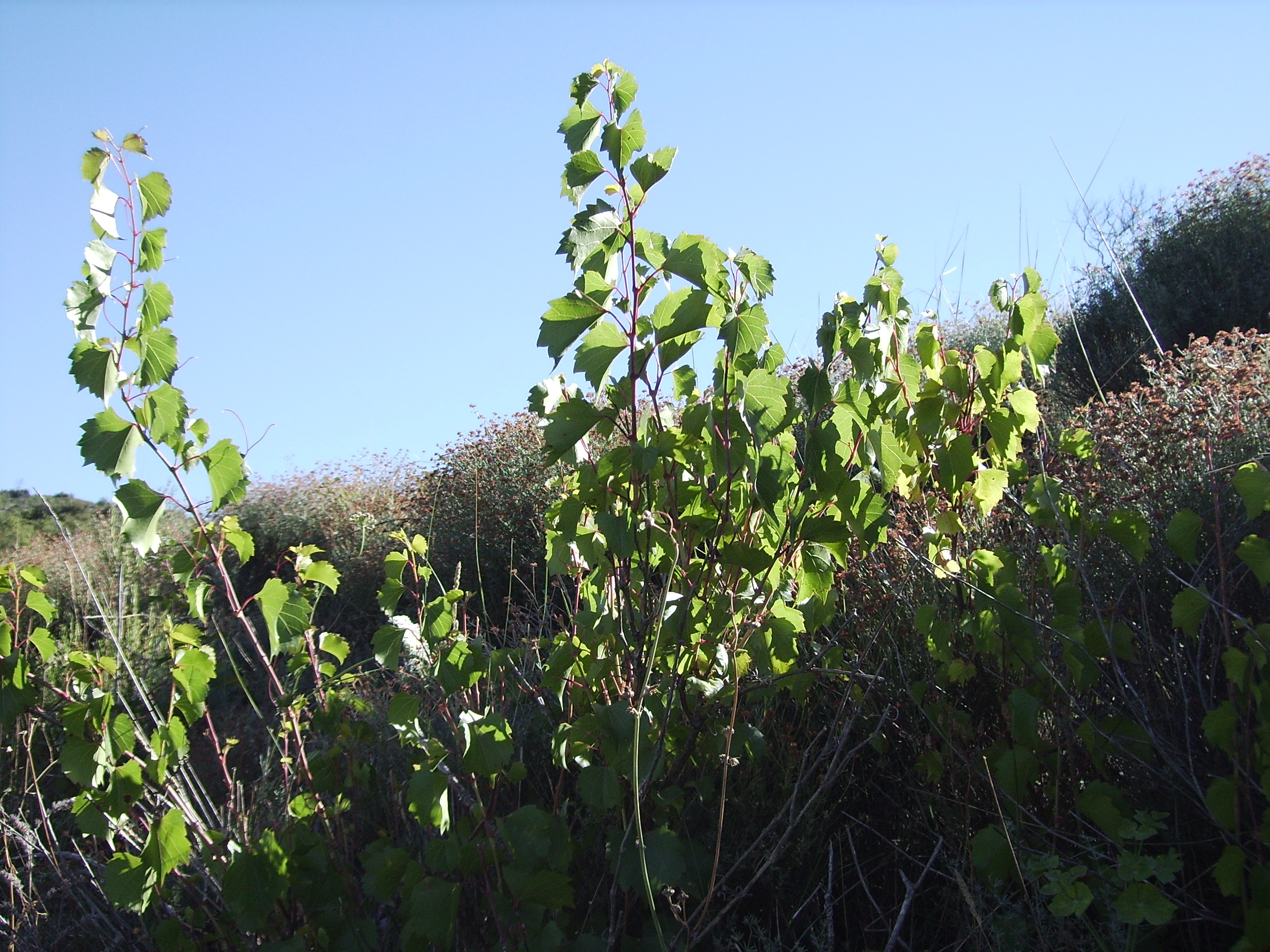 Image:Portaempelt_vitis sp..jpg Vitis from America in july 2006 at Castelltallat, Catalonia My own work